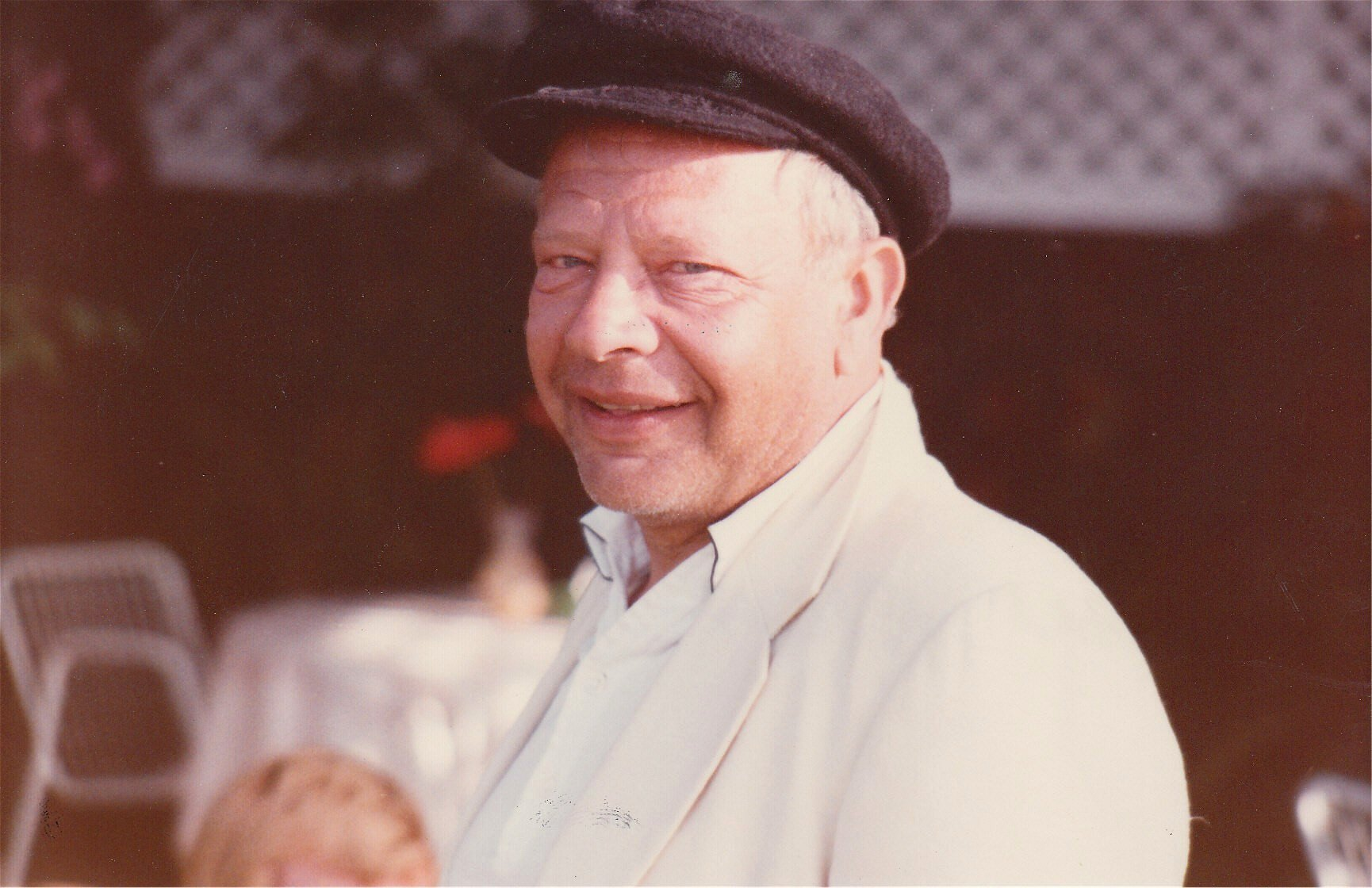 One of the most prolific character actors in the movies and on TV, Allan Rich. Photo taken in April 1984 at the Kahala Hilton Hotel in Hawaii. I keep seeing him around the hotel and he looked extremely familiar but I didn't know who he was, and he wouldn't tell me. It became sort of a running joke between us, me wanting to know and him being coy in a good-natured way about not satisfying my curiosity. Many years later I was watching some TV show or movie and saw him, and was able to find out who he was on